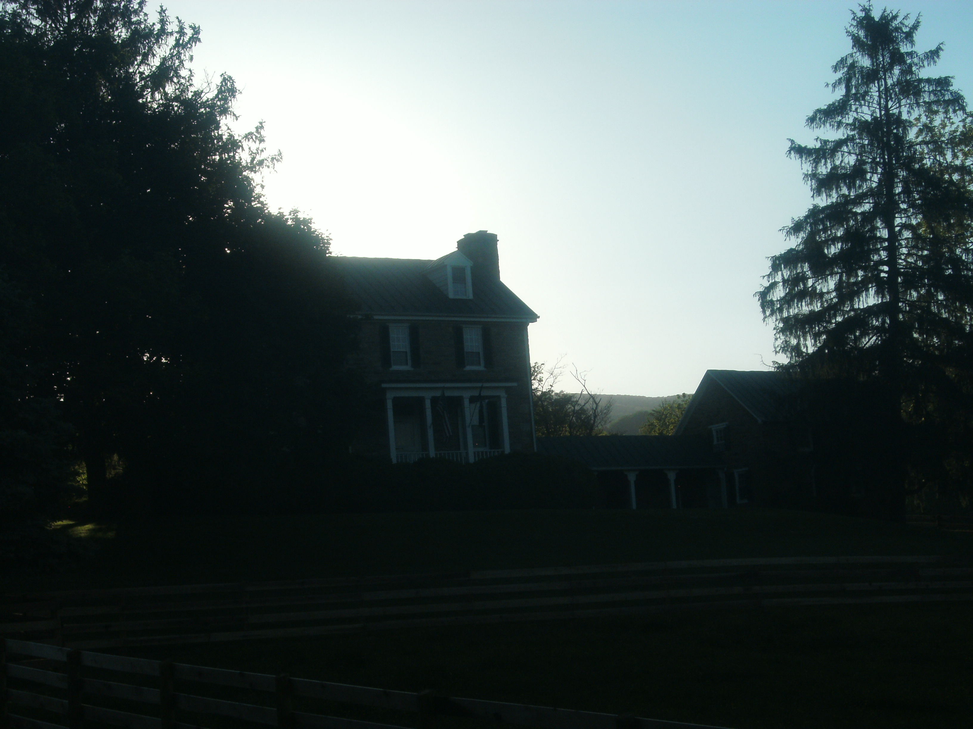 Taken by me in May, 2016 GEDSC DIGITAL CAMERA